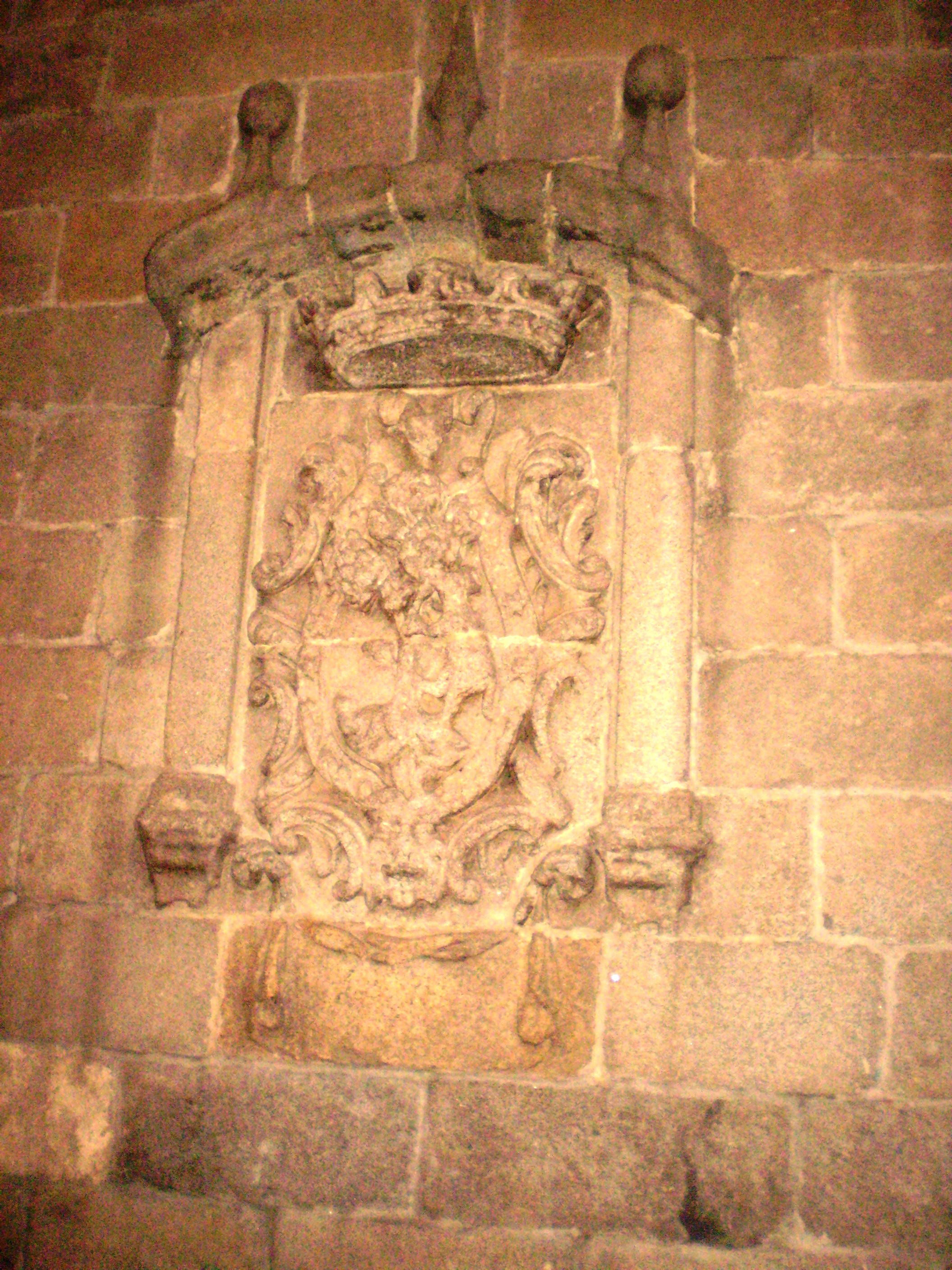 Coats of arms of Madrid in the Casa del Pastor (Segovia Street). Madrid, Spain